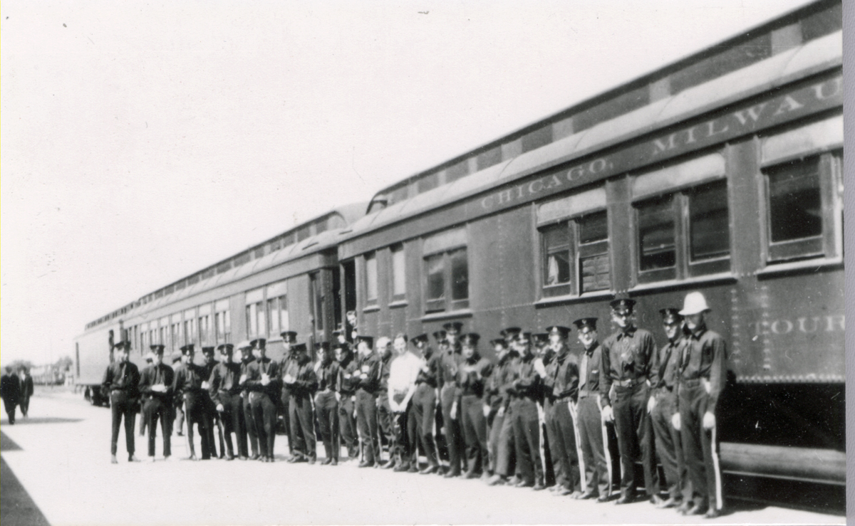 The UW-Wisconsin military band, with 60 students and three faculty members, began its trip to San Francisco on June 16, 1915. "The special train which was to be their home for the next month consisted of three private cars -- two sleepers that accommodated the entire band, and a baggage car that served as office, kitchen, and storehouse. Madison, Wisconsin. 6/16/1915. Image ID# S06256. For more information about this image or UW-Madison campus history, .